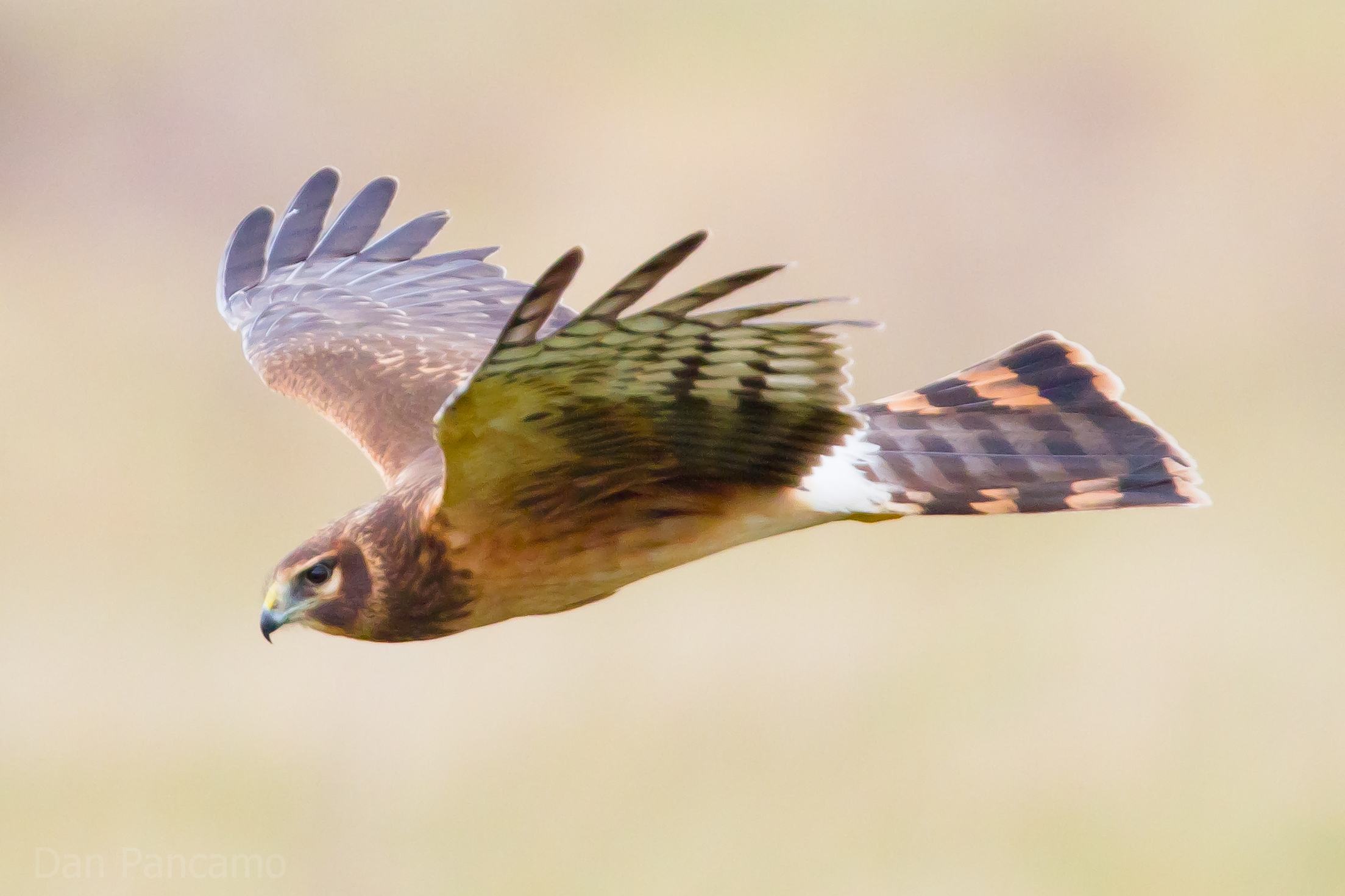 A Northern Harrier Circus hudsonius flying at Port Morris, Texas, USA.